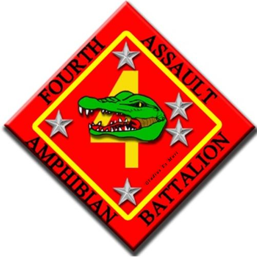 The file is a photo of the latest logo of the 4th Assault Amphibious Battalion Captioned As { }